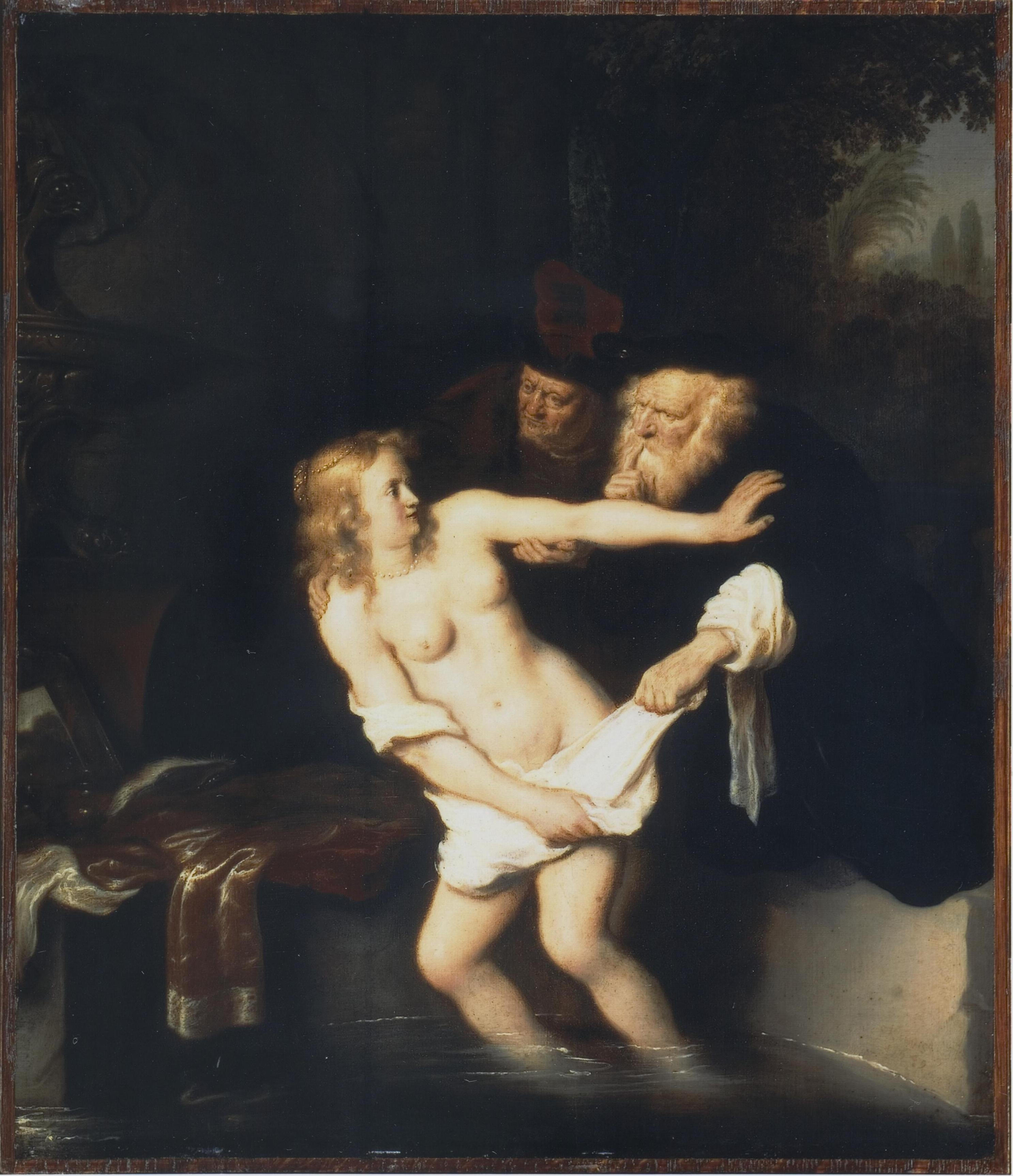 Susanna and the Elders